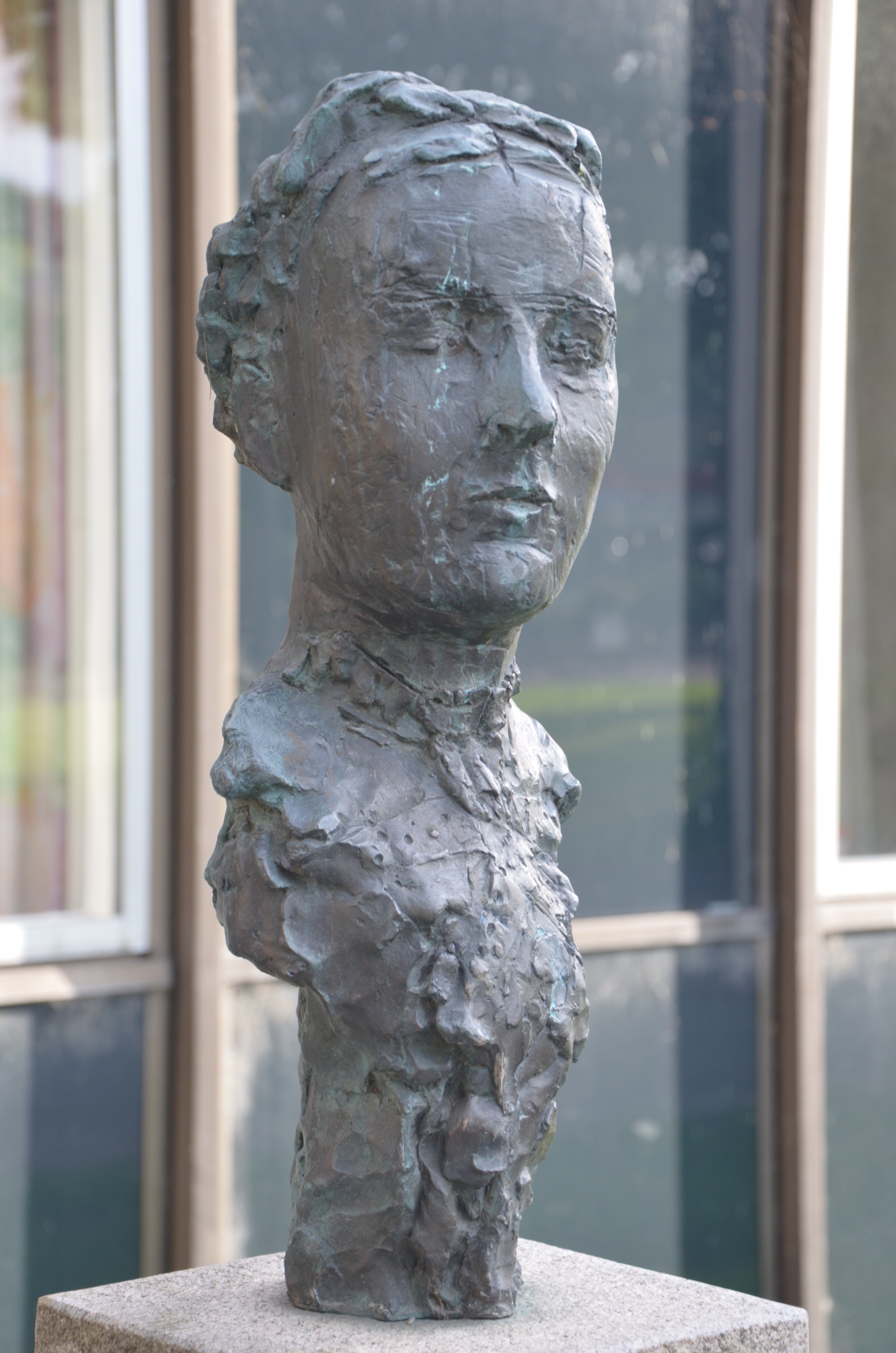 Inga-Louise Lindgren Barnmorskan Johanna Hedén, brons, 1988, Östra sjukhuset i Göteborg